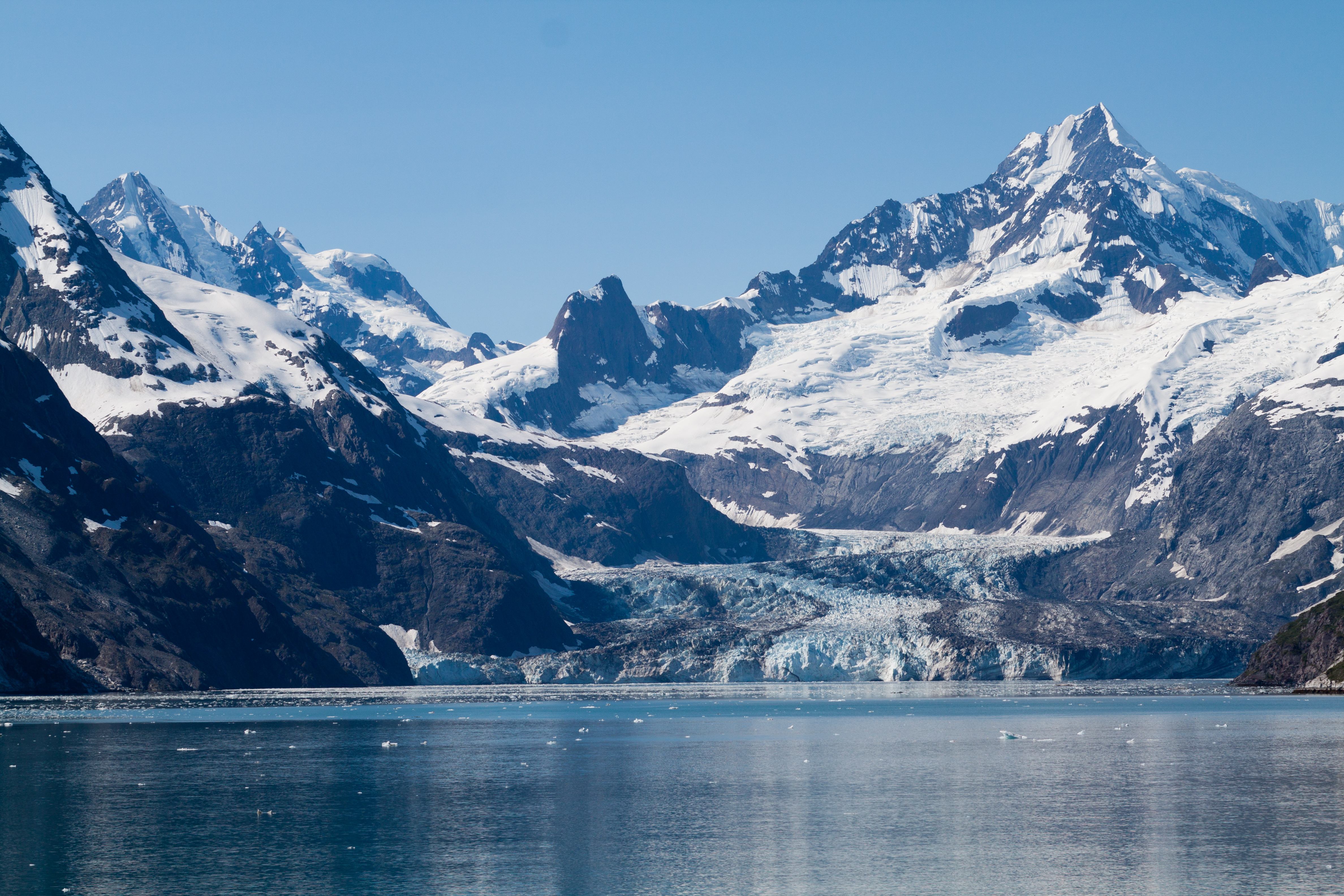 Closeup of Johns Hopkins Glacier, Alaska